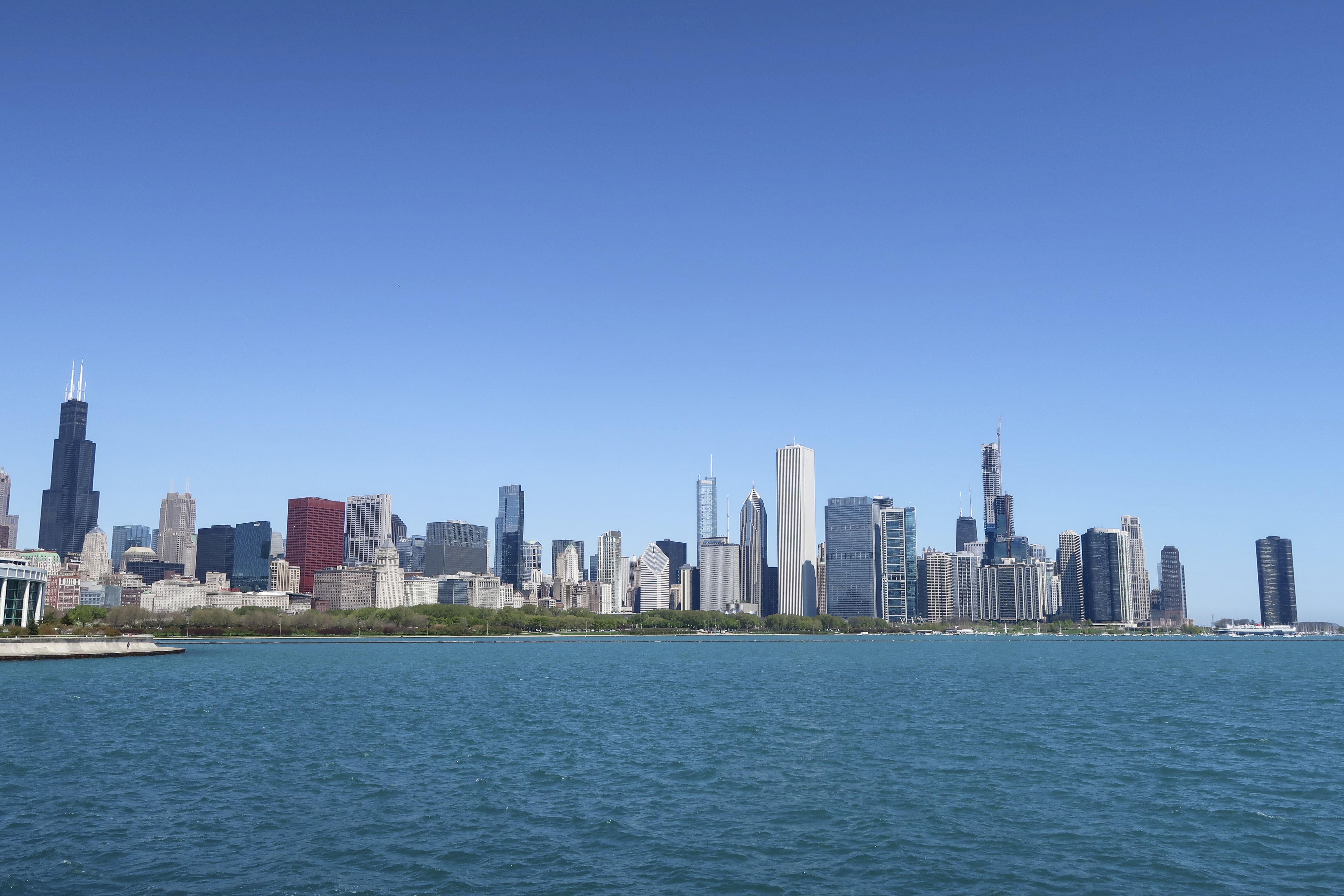 Chicago skyline from Lakefront Trail at Northerly Island